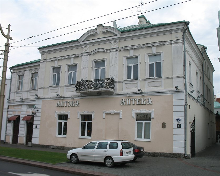 Pharmacy with Pharmacy Museum located next to the Roman Catolic Church of Saint Francis Xavier, in Hrodna (Гро́дна, Гродно, Grodno, Gardinas), Belarus.